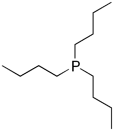 chemical structure of tributylphosphine